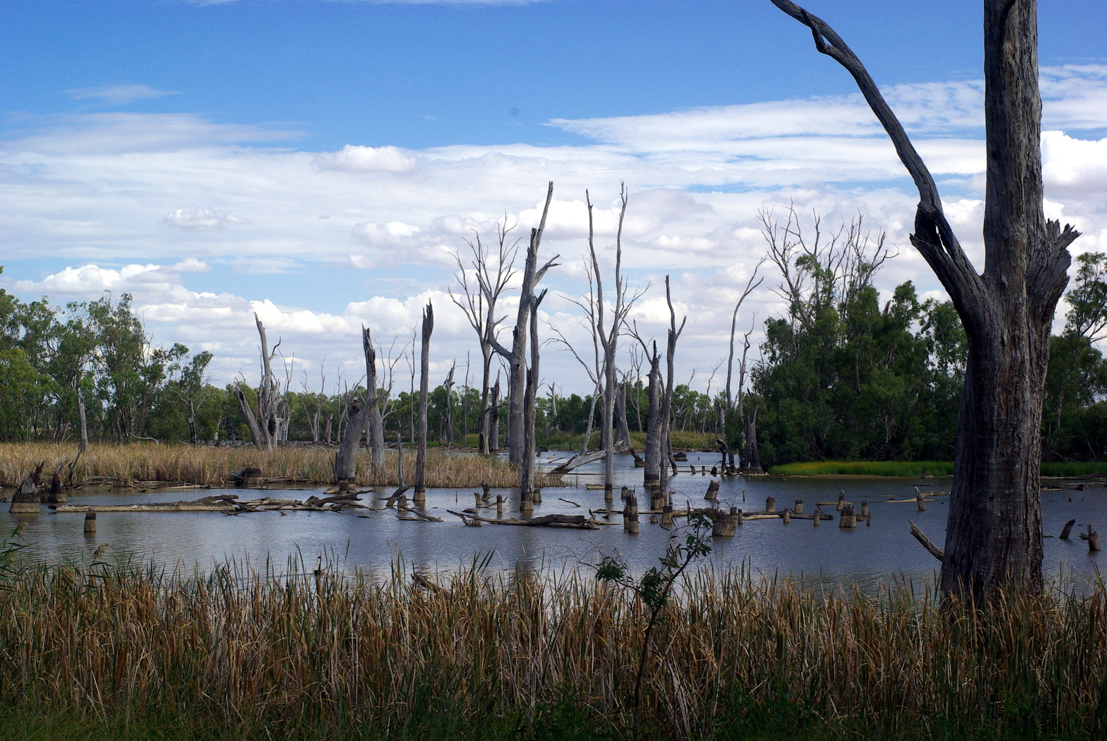 Lake Mulwala, near its eastern end, seen from the north.